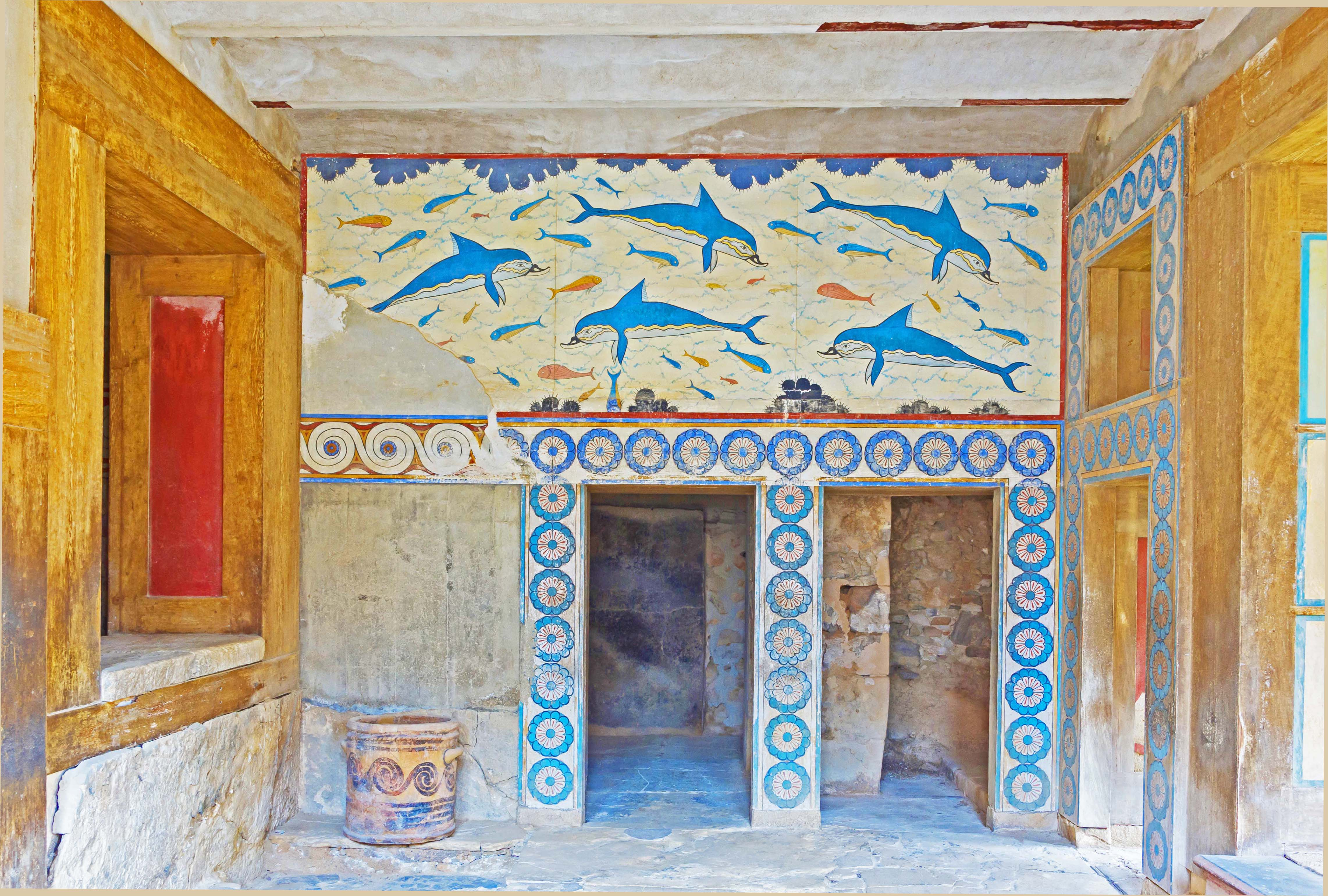 The dolphin's room or Queen's bathroom of the at Knossos.